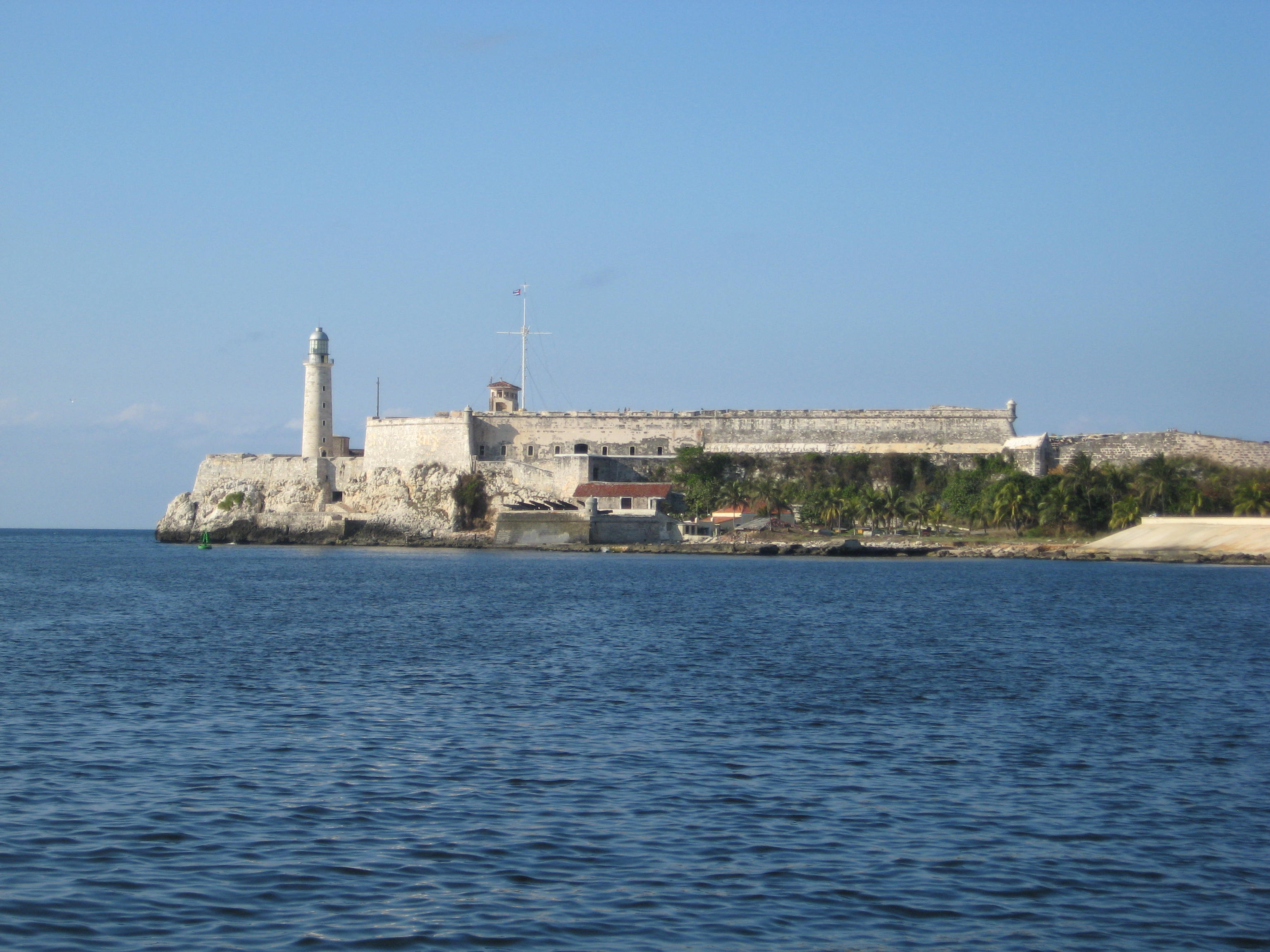 El Morro, Cuba. 24 January 2008